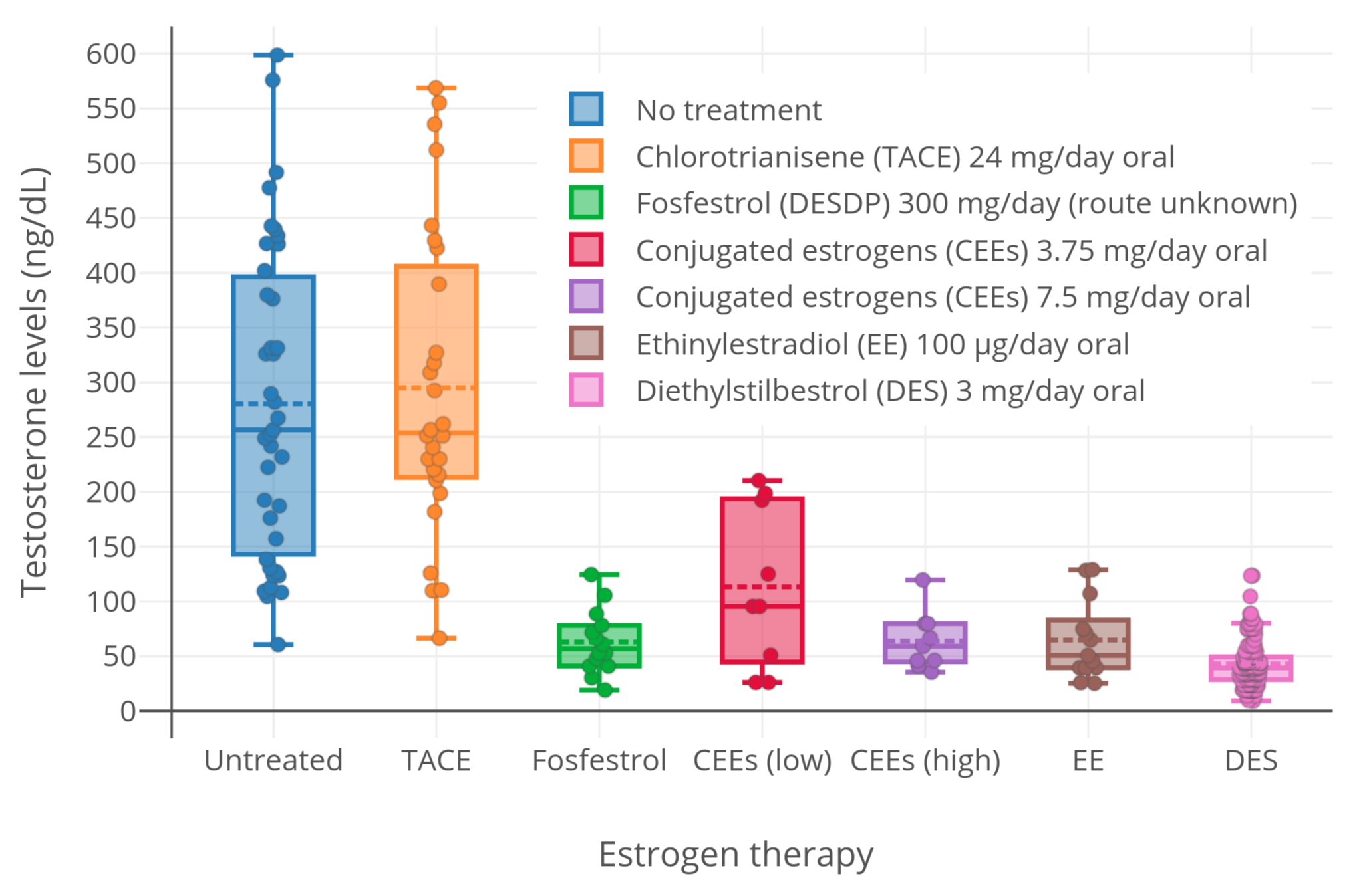 Levels of testosterone (ng/dL) with no treatment or with estrogen therapy using the following estrogens in men with 109 prostate cancer: Chlorotrianisene (TACE) 12 mg 2x/day (24 mg/day total) oral Fosfestrol (diethylstilbestrol diphosphate; DESDP; Honvan) 100 mg 3x/day (300 mg/day total) (route unknown) Conjugated estrogens (CEEs; Premarin) 1.25 mg 3x/day (3.75 mg/day total) oral Conjugated estrogens (CEEs; Premarin) 2.5 mg 3x/day (7.5 mg/day total) oral Ethinylestradiol (EE) 50 μg 2x/day (100 μg/day total) oral Diethylstilbestrol (DES) 1 mg 3x/day (3 mg/day total) oral Determinations were made using radioimmunoassay (RIA). Source of the values: (December 1973). "Plasma testosterone: an accurate monitor of hormone treatment in prostatic cancer". Br J Urol 45 (6): 668–77. PMID 4359746.